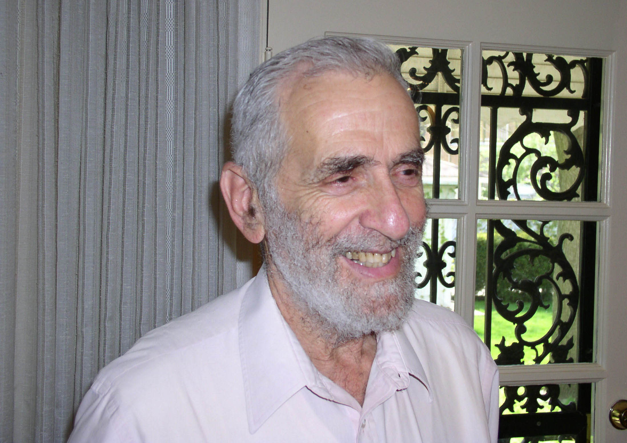 A 2004 photo of Israeli mathematician Aviezri Fraenkel.